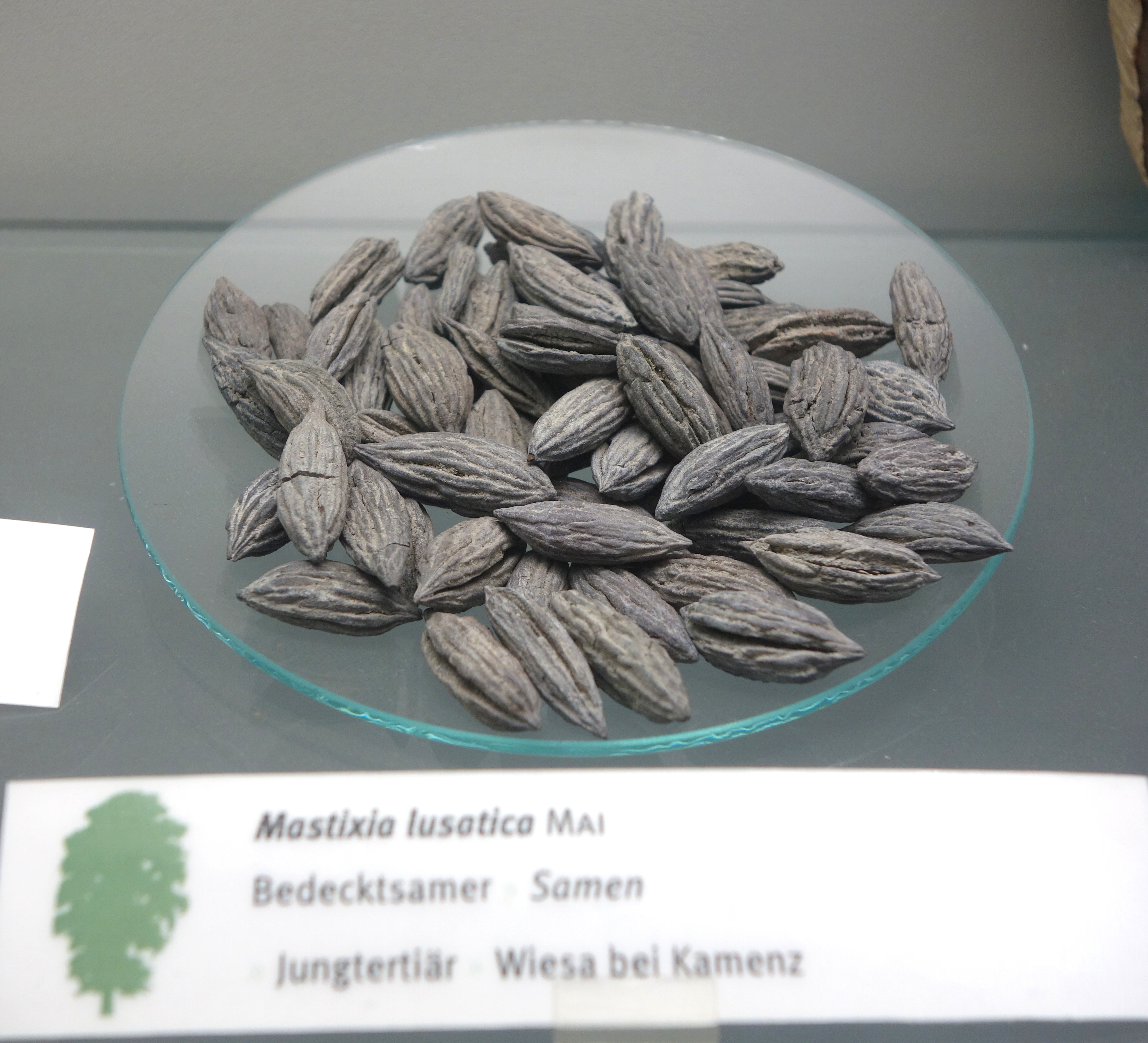 Fossil specimen in the Botanischer Garten, Dresden, Germany. Photography was permitted in the botanical garden without restriction.